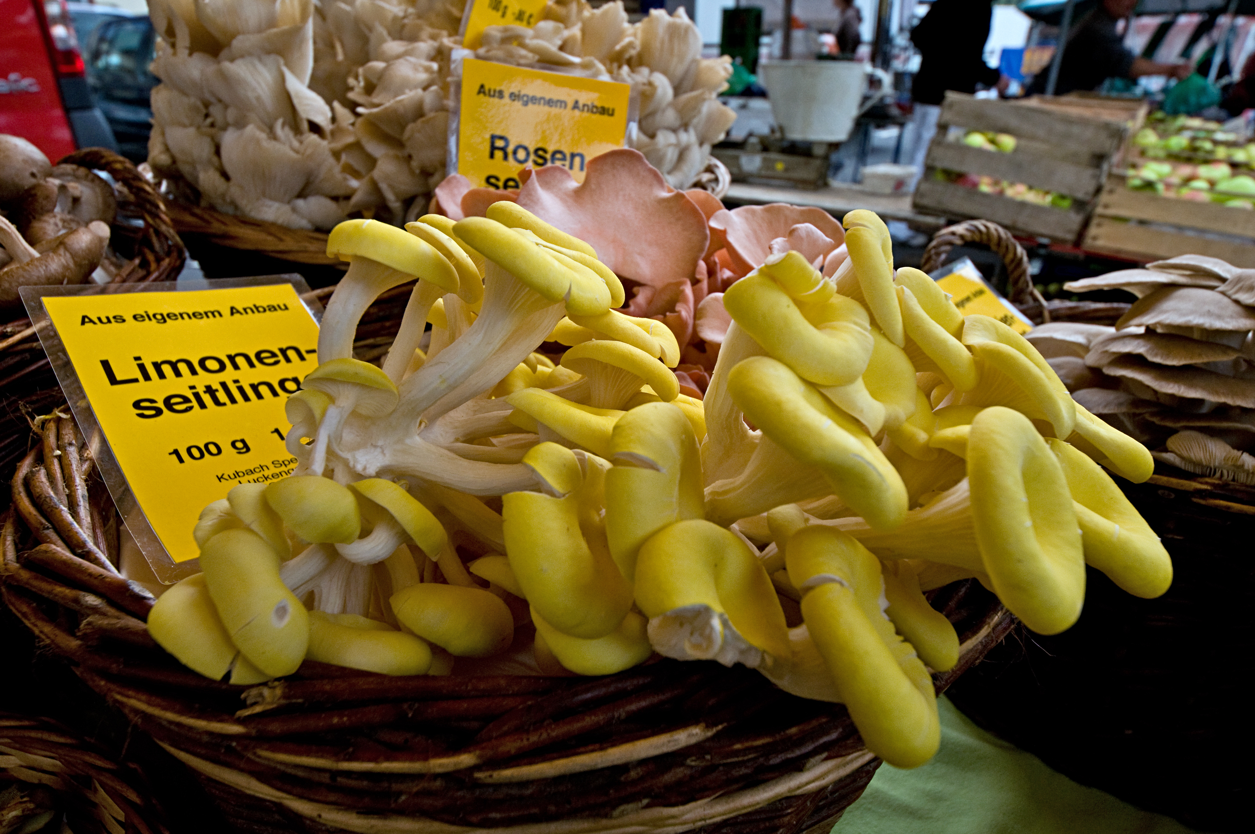 Golden oyster mushrooms (Pleurotus citrinopileatus) on sale at a market in Höchst, Frankfurt, Hessen, Germany.